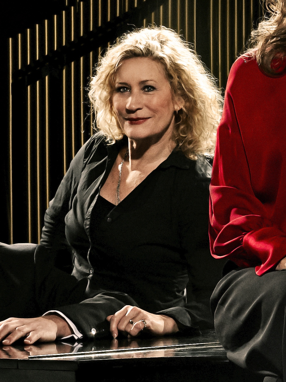 Birgitte Raaberg in the Copenhagen theater Folketeatret's production of the play "Liva" about the actress Liva Weel.